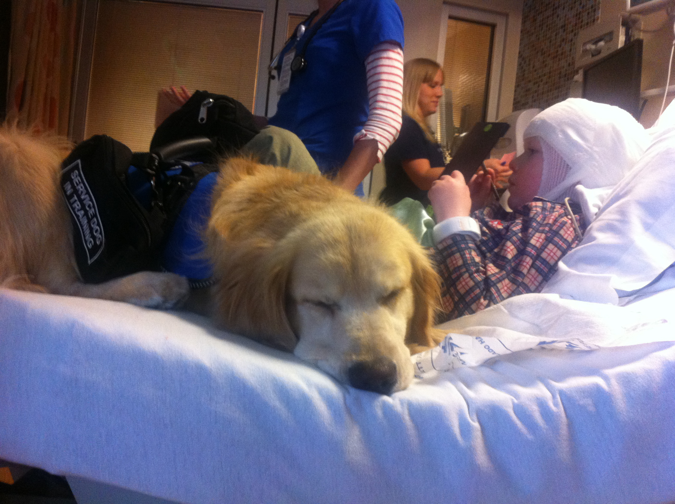 Service dog for a boy with autism calms him during 24-hour EEG